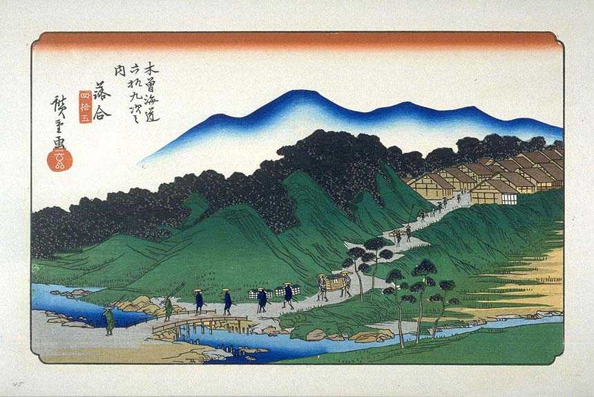 Ochiai on the Kisokaido, ukiyo-e prints by Hiroshige